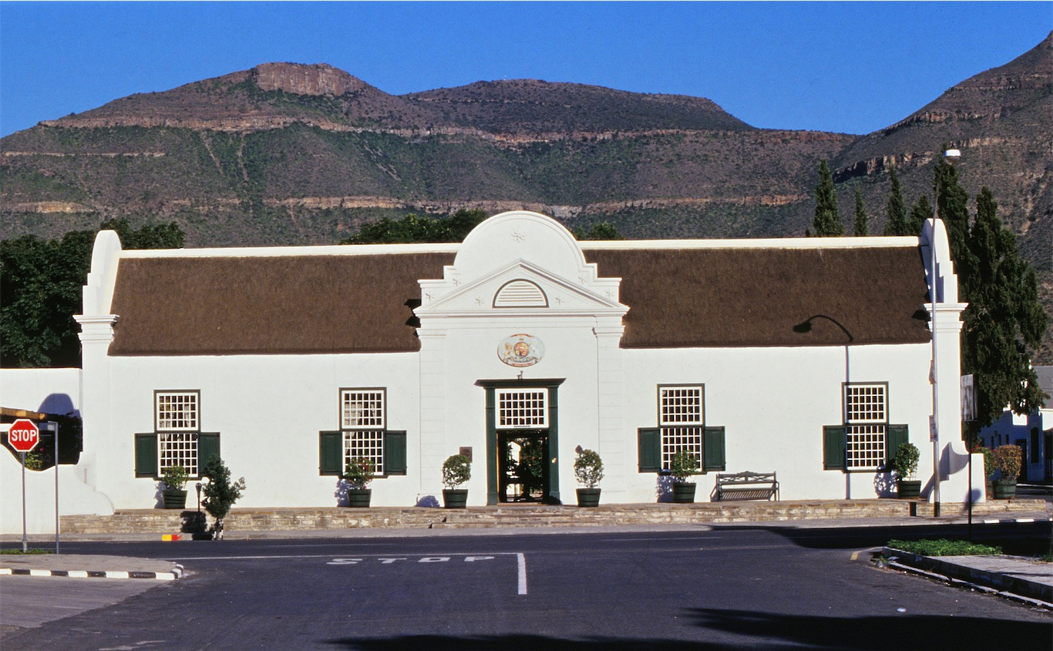 This media shows a South African Protected Site with SAHRA file reference 9/2/033/0052.